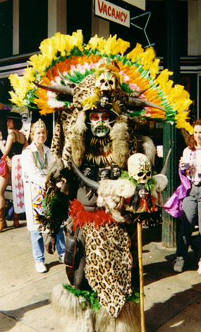 New Orleans: Costumed street reveler, Faubourg Marigny, Mardi Gras Day, 1999. Photo by Infrogmation Previously uploaded by me to Wikipedia on 14 February, 2004.